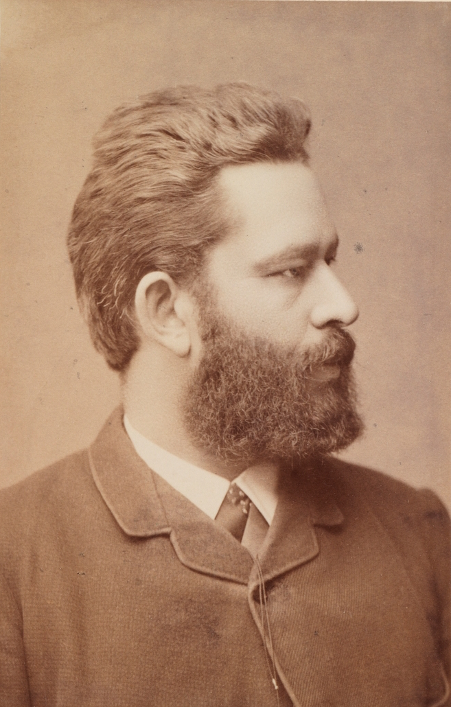 Bernhard Cathrinus Pauss (1839–1907), theologian, headmaster and school owner (Nissen's Girls' School)